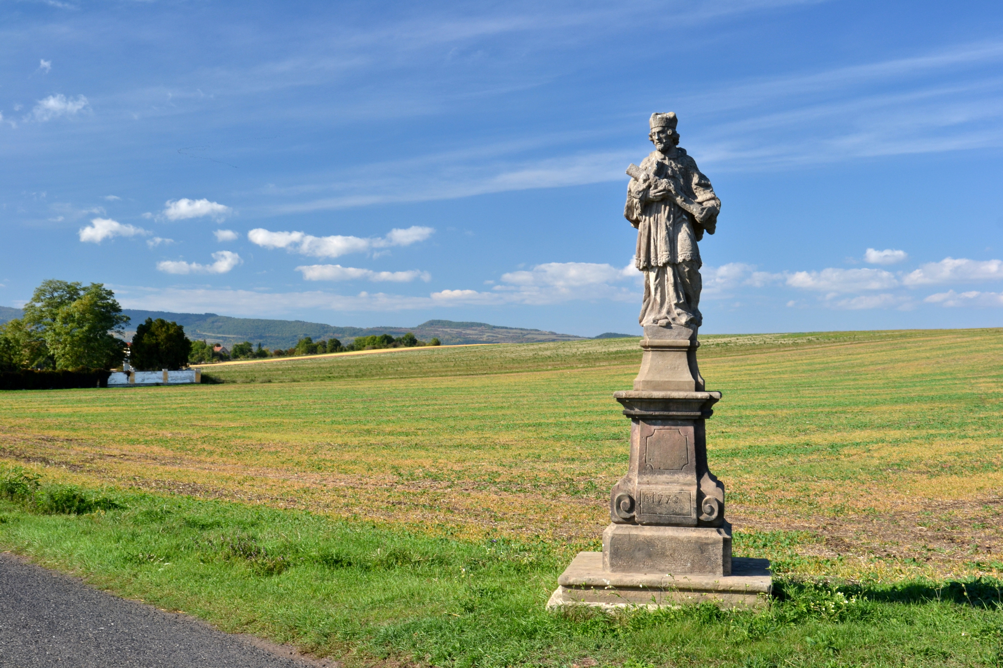 Statue of St John of Nepomuk from 18th century